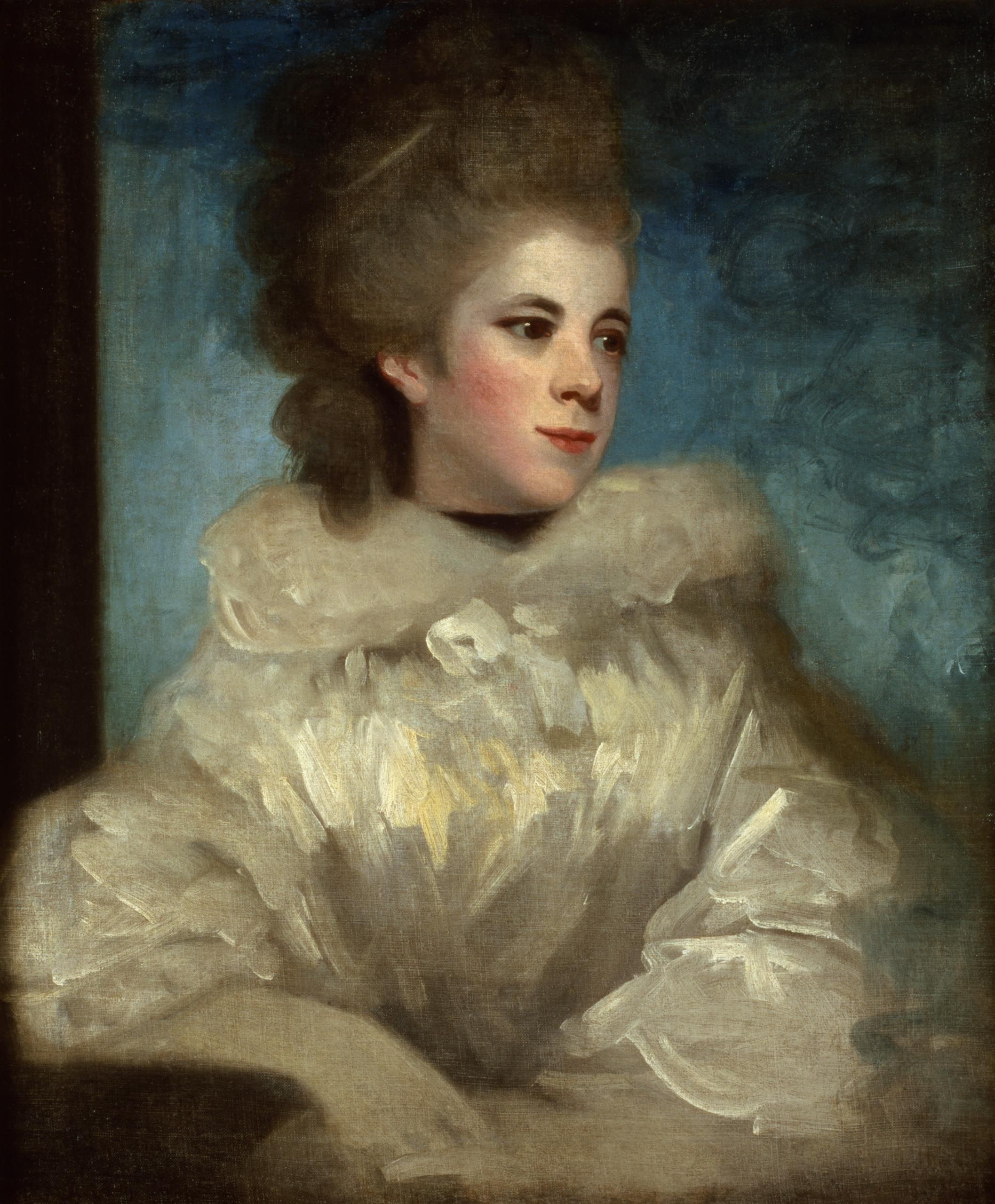 Portrait of Mrs. Abington (1737-1815)